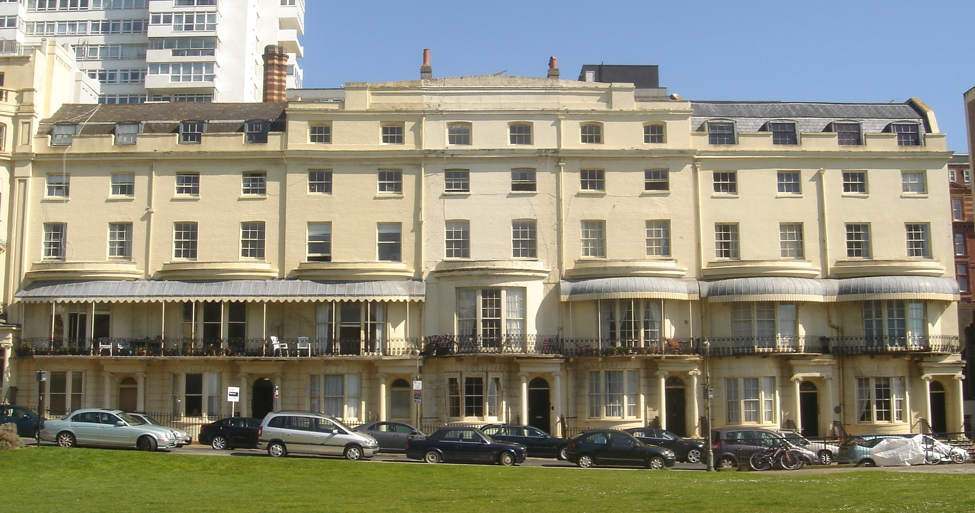 60–66 Regency Square, Brighton, City of Brighton and Hove, England. The east part of the Regency Square development built in Brighton around 1818. Listed at Grade II* by English Heritage (IoE Code 481137)